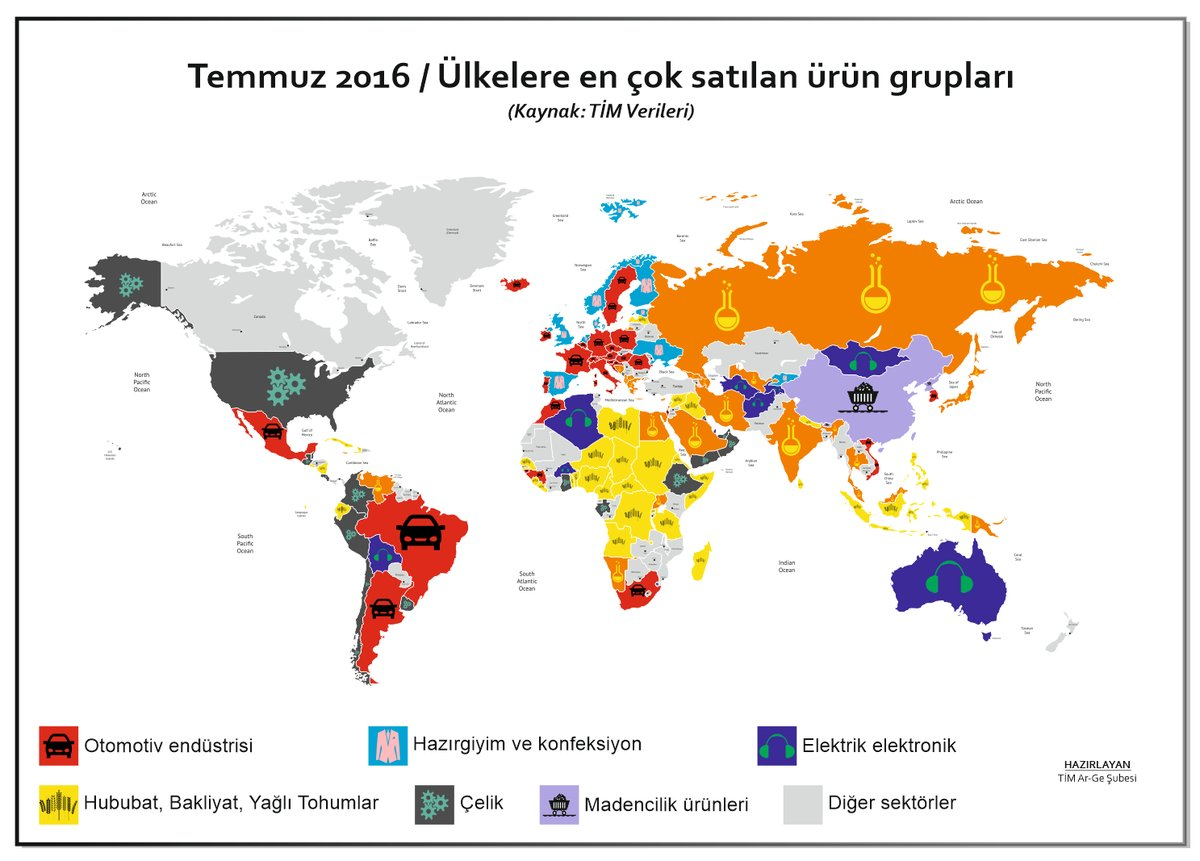 temmuz 2016 ihracat